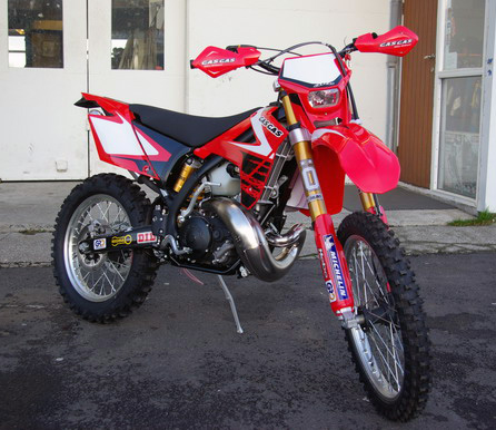 2008 Gas Gas EC Racing with full Ohlins suspension.